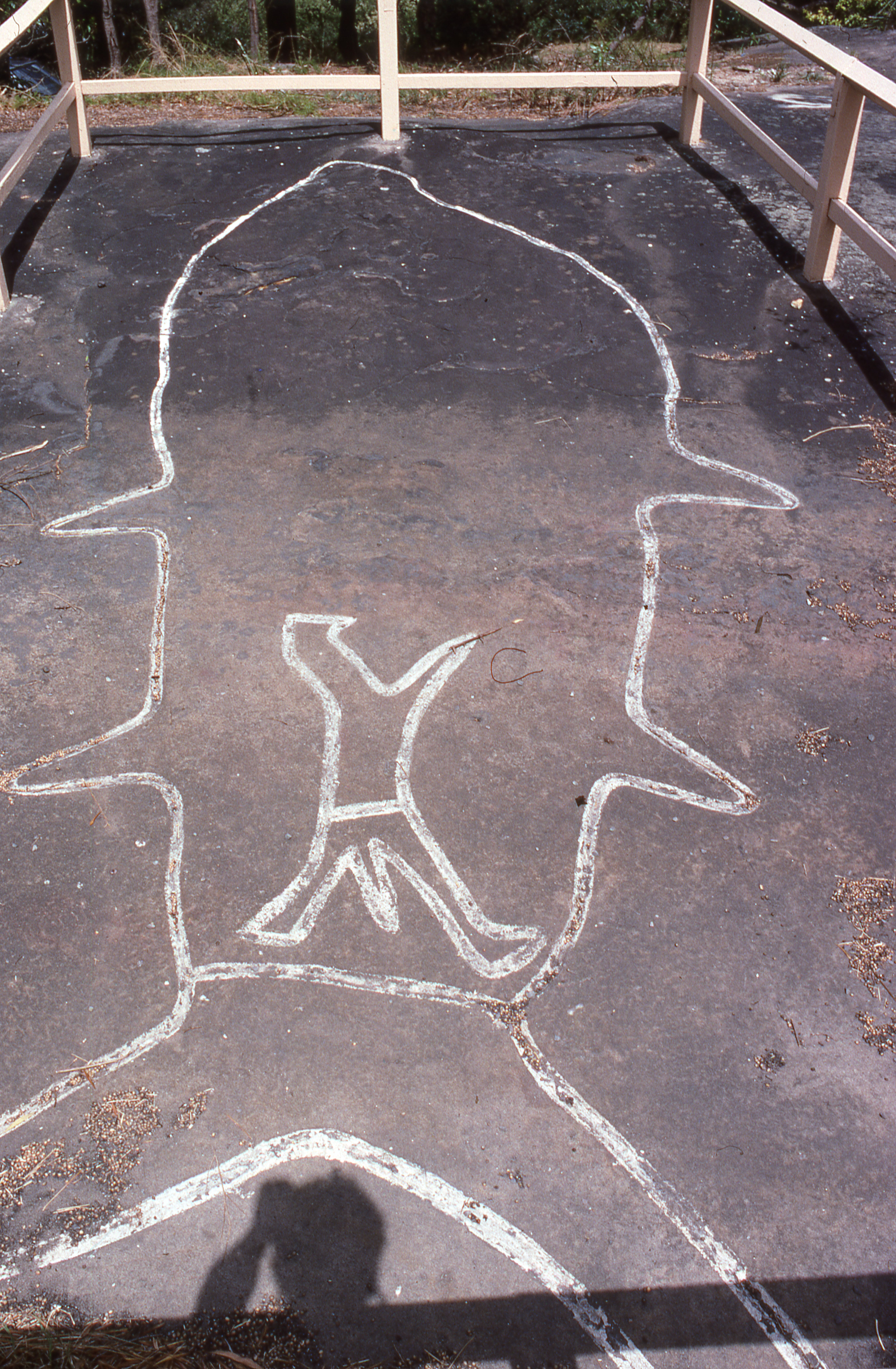 Aboriginal rock carving of whale, Waverton Peninsula Reserve, Waverton, Sydney, taken in 1980s, when carving was outlined in white paint, a practice that is no longer approved of -- compare with contemporary shots without white paint (Kodachrome slide scanned at 6400)